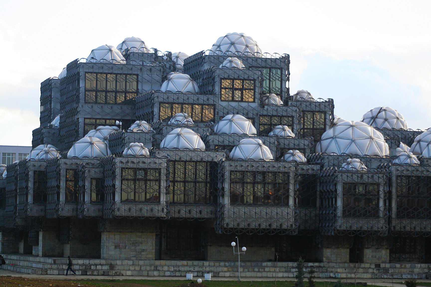 National University Library of Kosovo. (Photo Made in Prishtina).